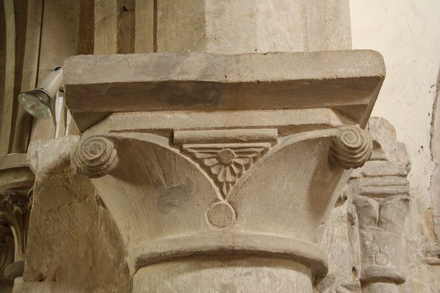 Waterleaf respond Late 12th century chancel arch respond in St.Mary's church